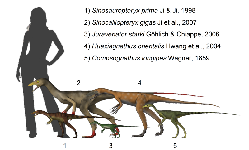 Compsognathids reconstructed to scale. Digital.